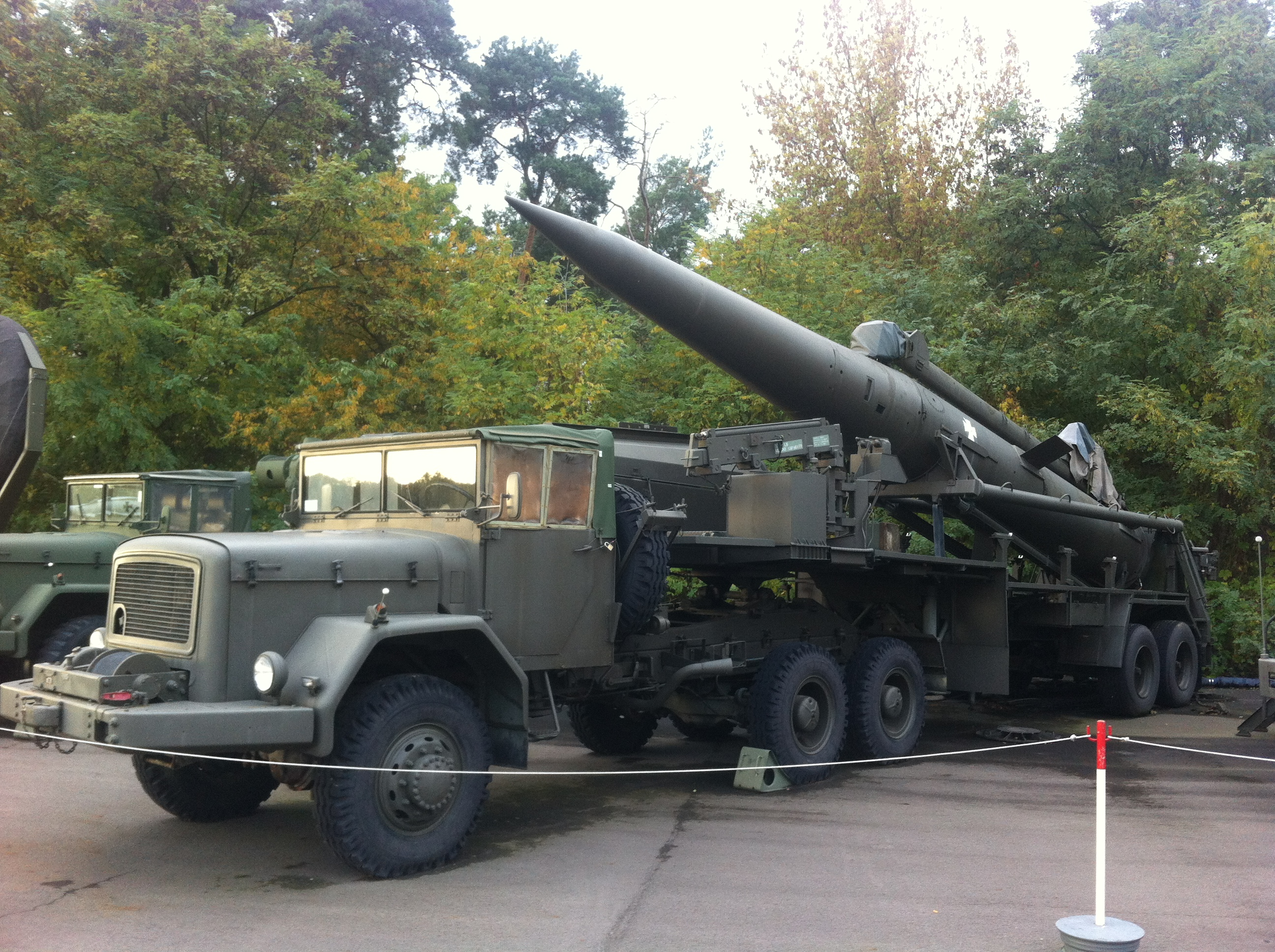 German Air Force Pershing 1A missile on launcher at Militärhistorisches Museum Flugplatz Berlin-Gatow